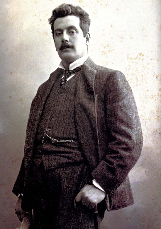 Portrait of Giacomo Puccini